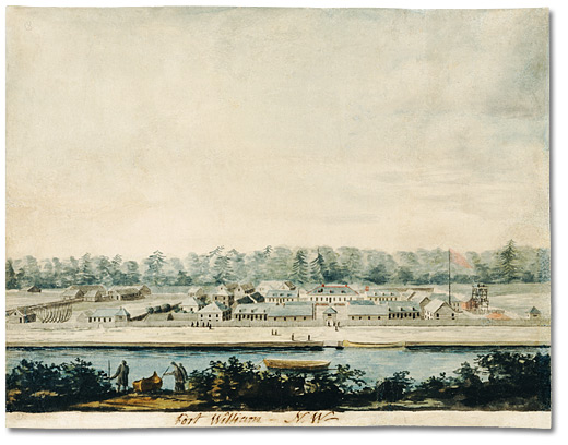 Fort William, an establishment of the North West Company, on Lake Superior, [ca. 1811] Watercolour by Robert Irvine